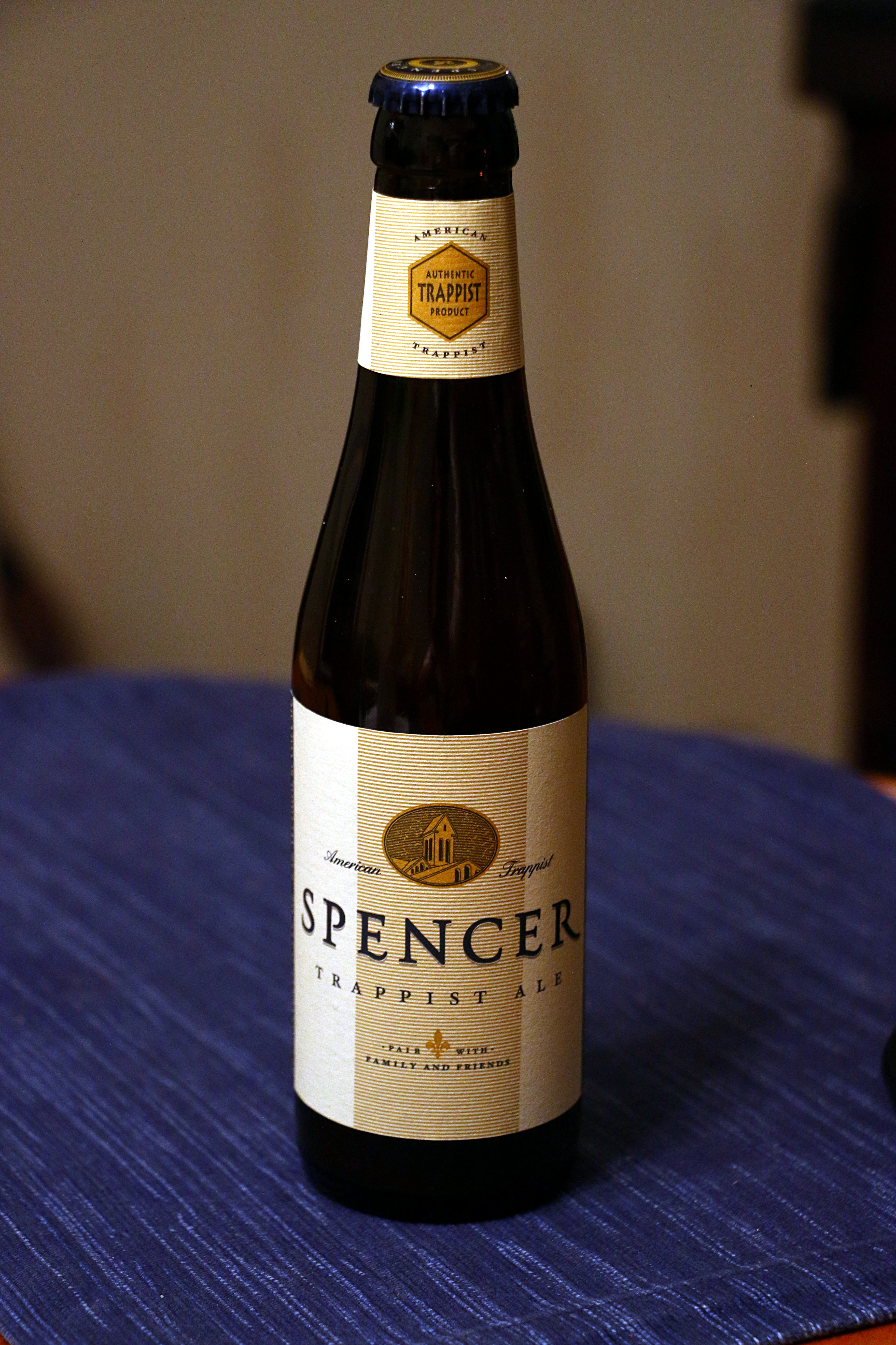 A bottle of Spencer Trappist Ale, which the Spencer Trappist monks started selling in January of 2014.